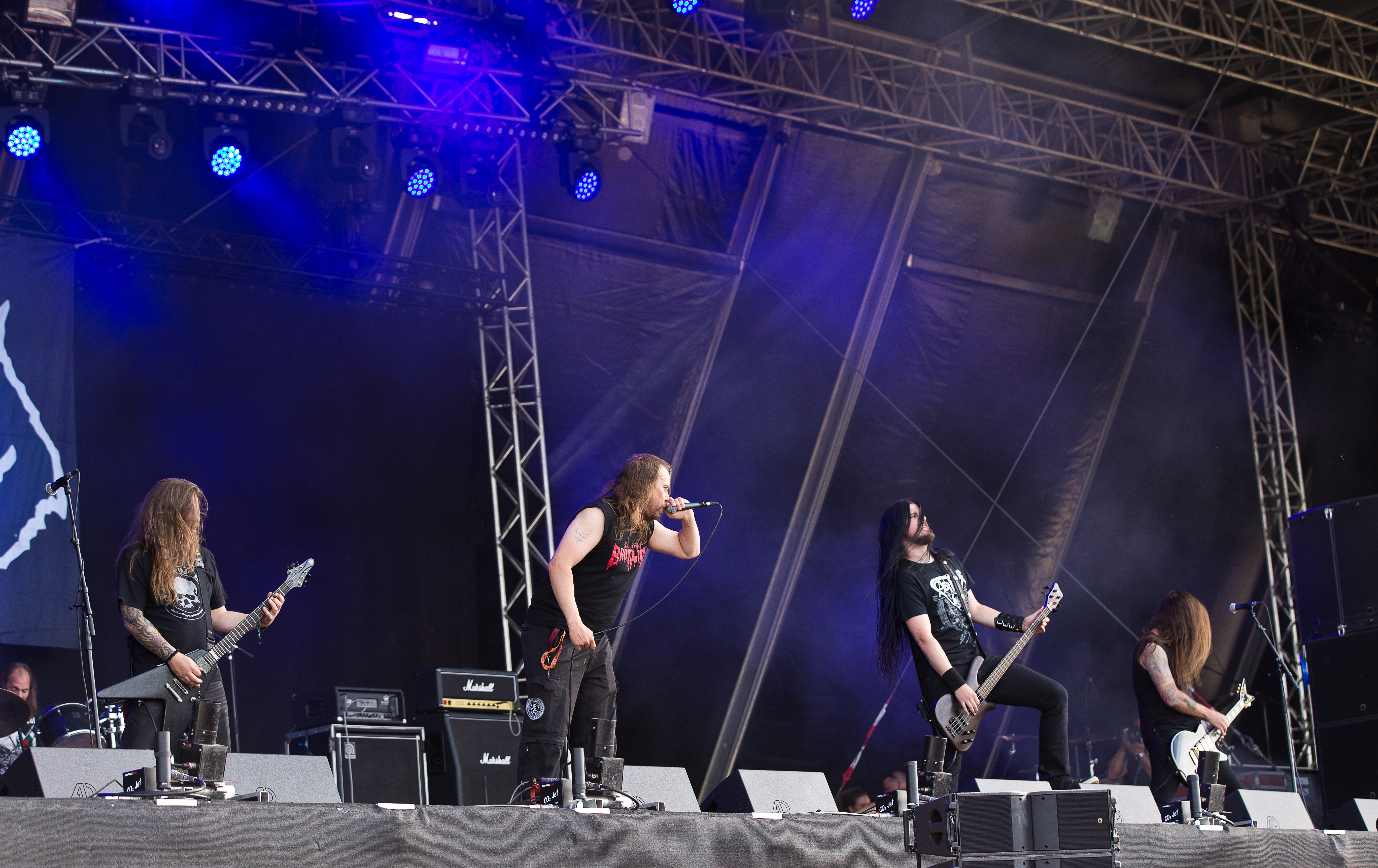 The Swedish death metal band Entombed A.D. at the Rockharz Open Air 2016 in Ballenstedt/Germany.